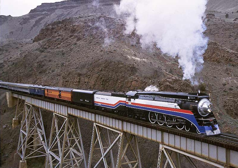 SP 4449 leads an excursion train through the Deschutes River canyon at Trout Creek, Oregon. This is the second of the two large operable steam locomotives that are based in Portland, OR.